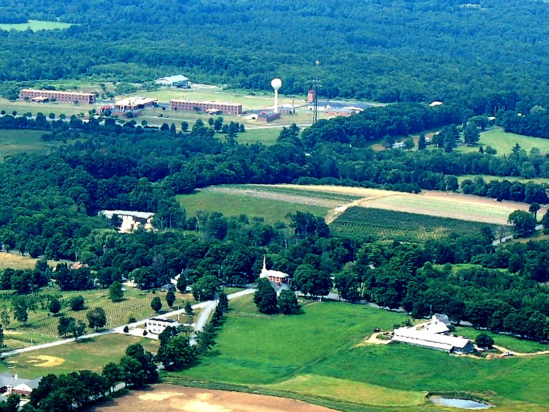 Photo taken by Richard B. Johnson from his Grumman Cheetah.